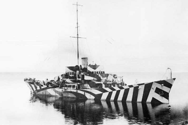 Photograph of British Kil class patrol gunboat HMS Kilbride painted in dazzle camouflage.